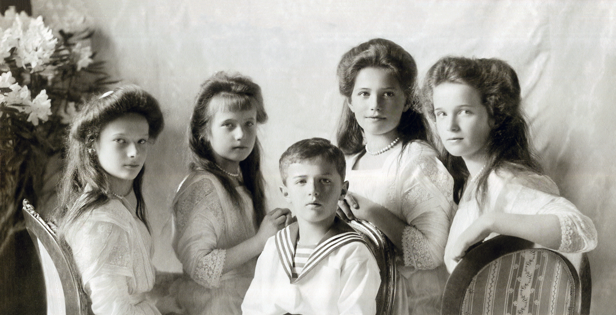 The Grand Duchesses Tatiana, Anastasia, Maria and Olga Nikolaevna of Russia with Cesarevich Alexei Nikolaievich of Russia in a formal portrait